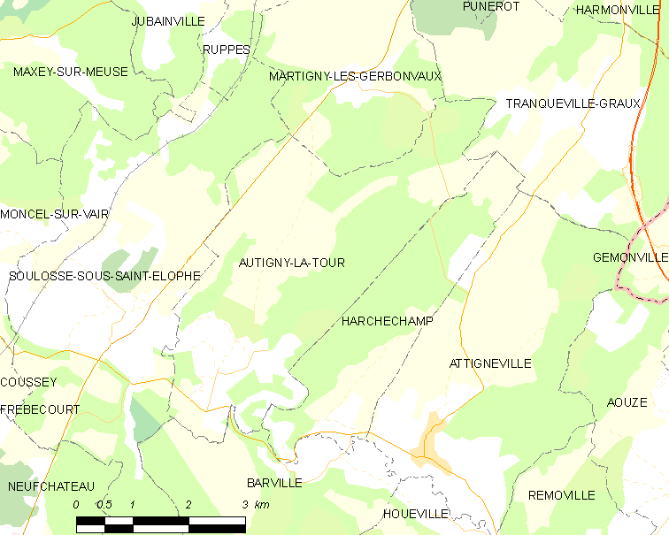 Map of French municipality Autigny-la-Tour